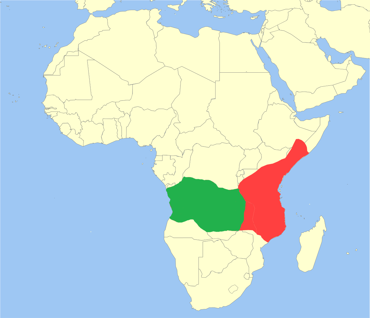 red - distribution Yellow Baboon; green - distribution Kinda Baboon